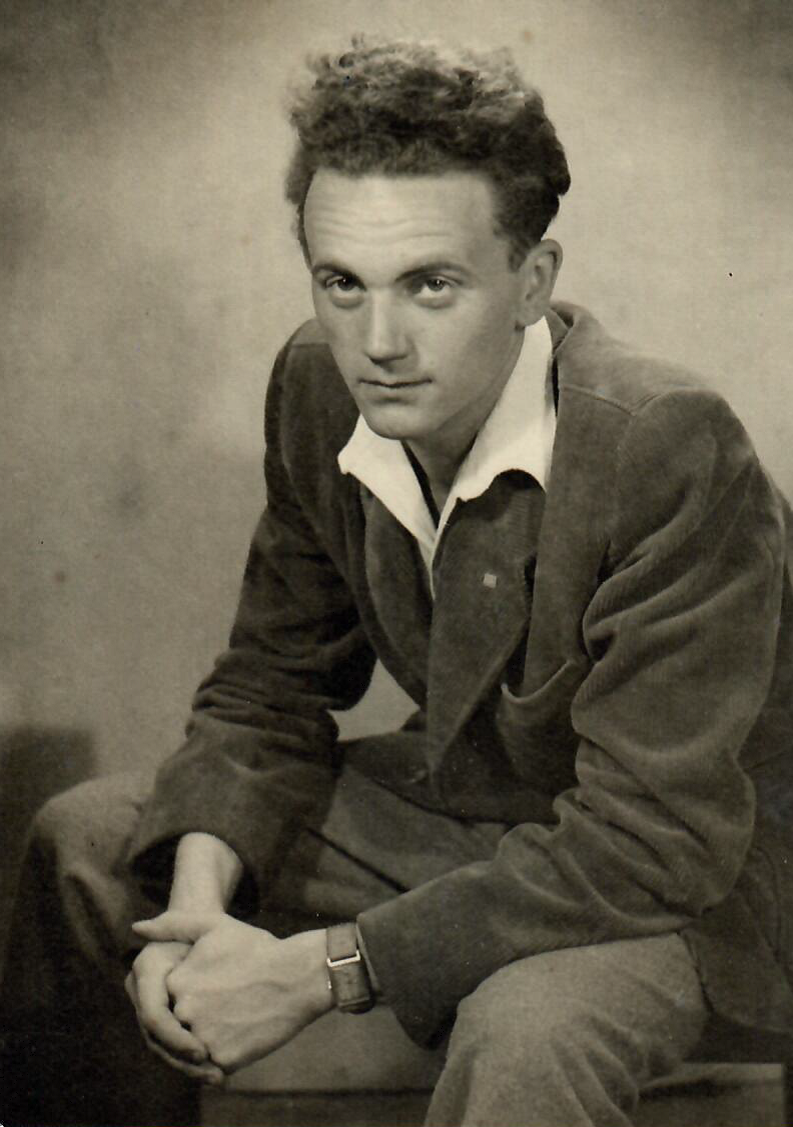 Arno Kraus jr. (1921-1982), Czech writer